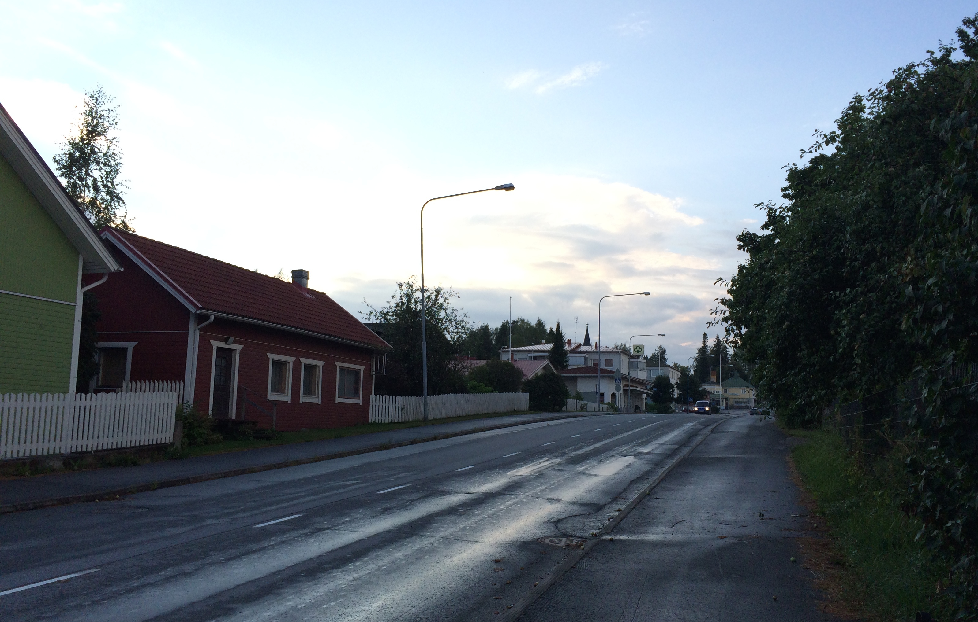 Onkkaalantie road (local road 13982) in Pälkäne, Finland.